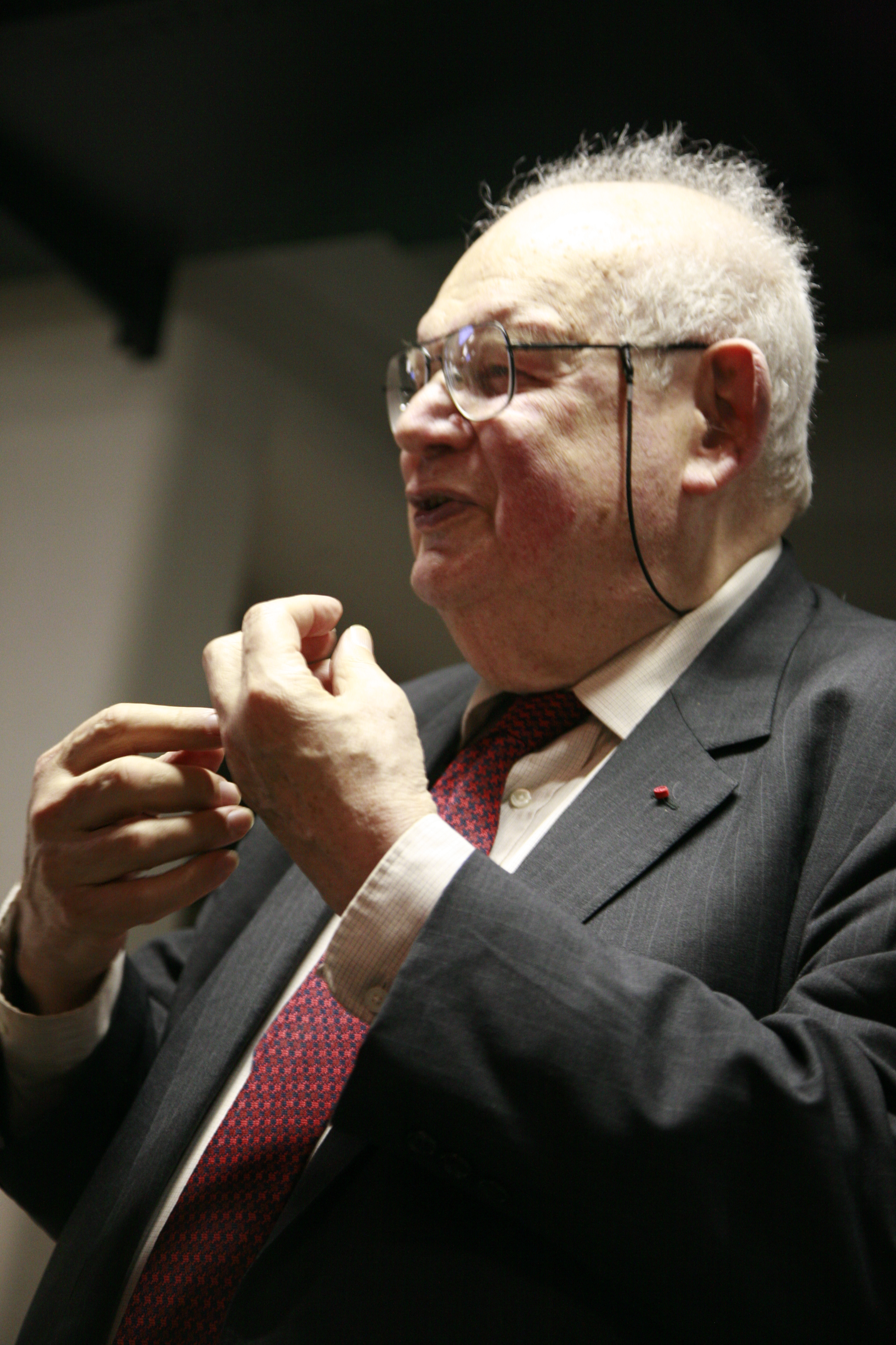 Benoît Mandelbrot at the EPFL, on the 14h of March 2007